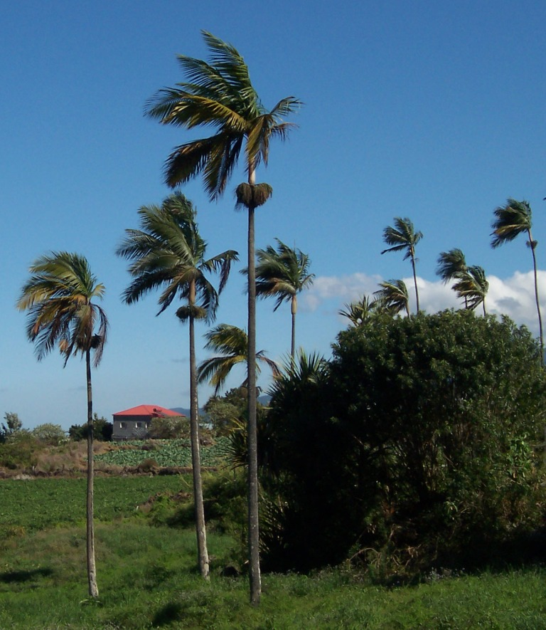 Princess (or Hurricane) palm (Dictyosperma album) - cluster in the fields, Réunion island